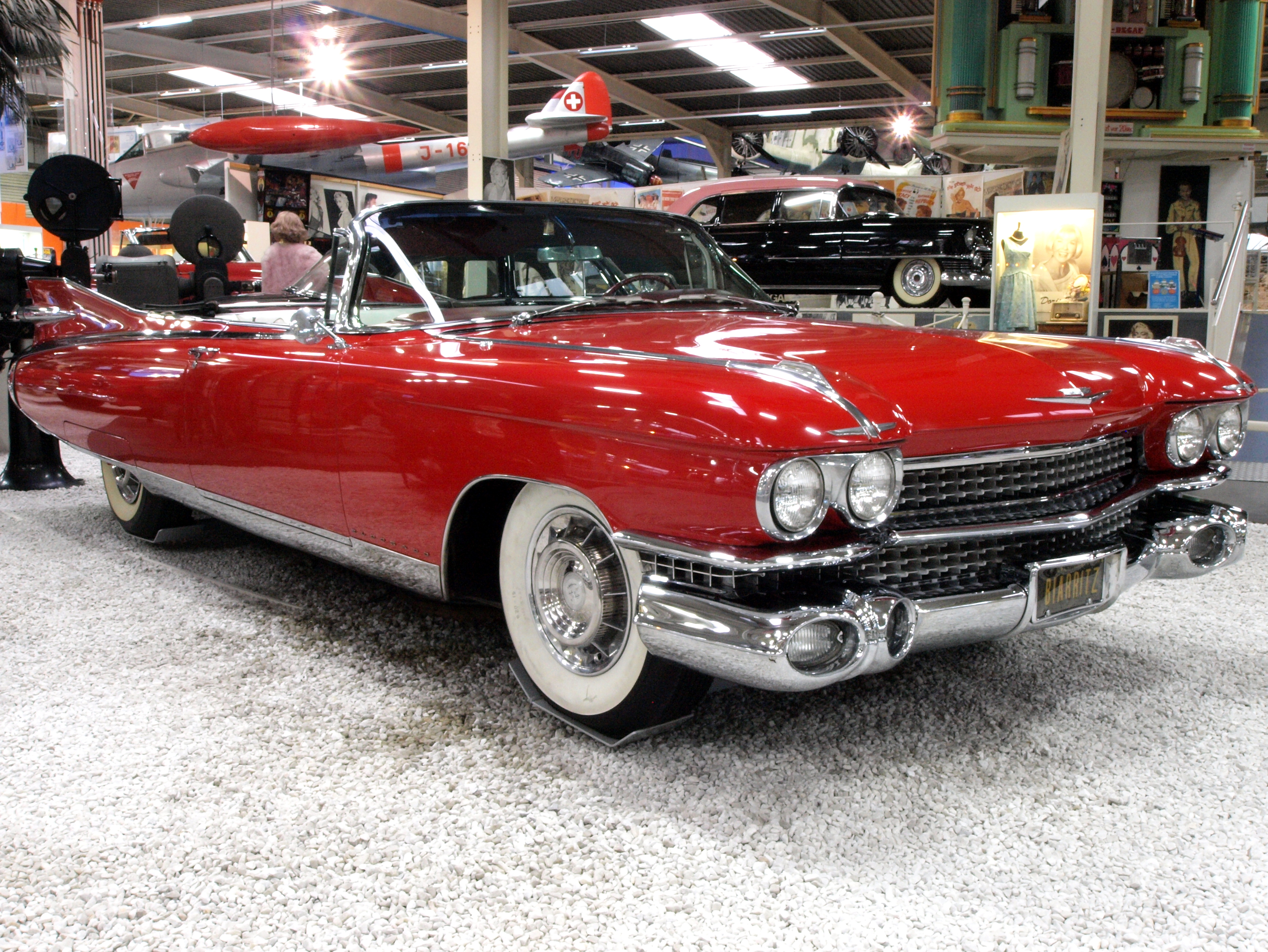 This is a picture of a 1959 Cadillac Eldorado Biarritz.